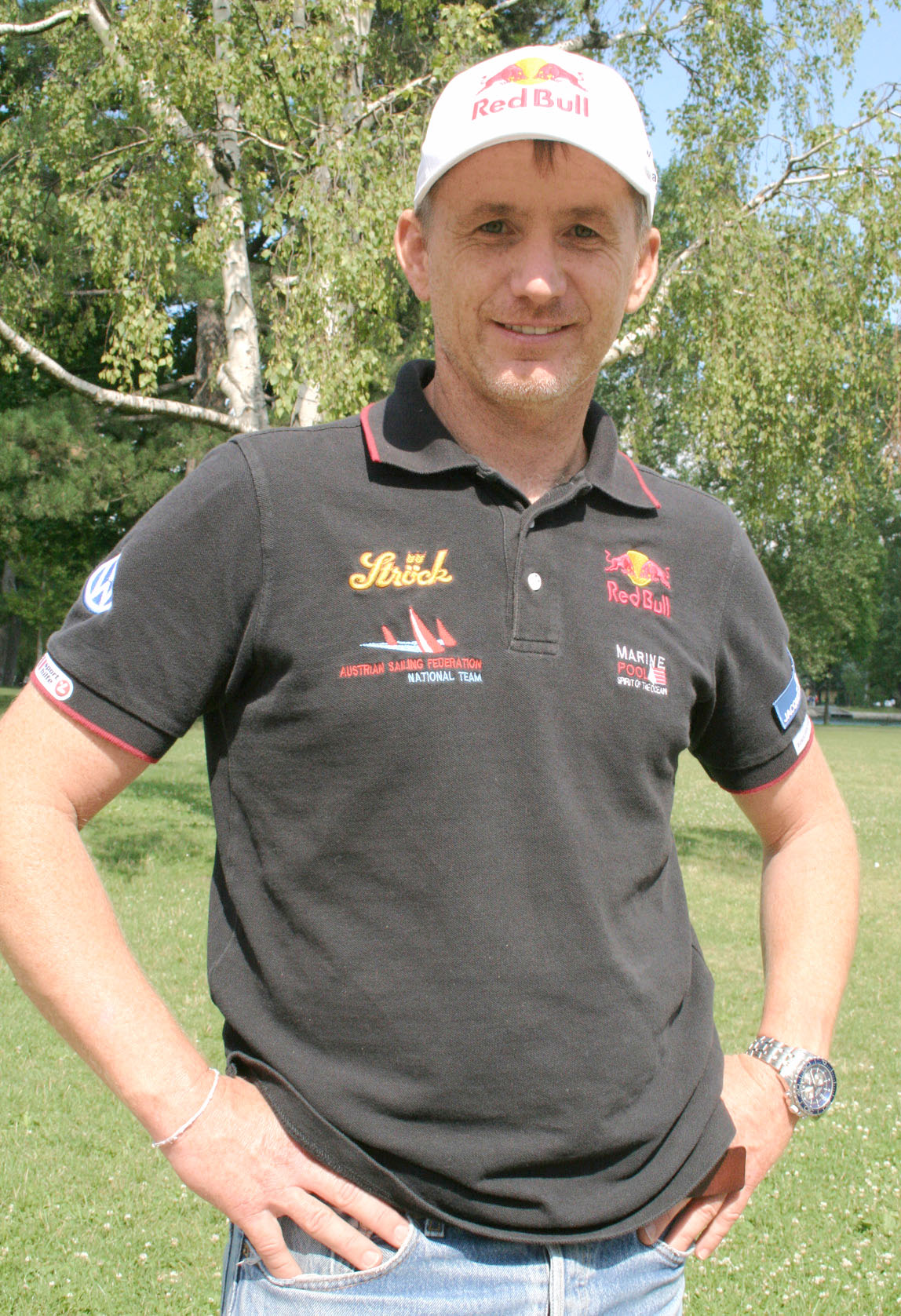 Sailor (Tornado class) Roman Hagara at the presentation of the Austrian team for the 2008 Summer Olympics in China (Strandbad Gänsehäufel, Vienna)